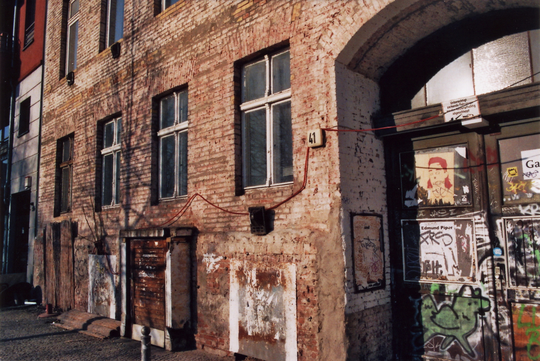 The ghost wall (Gespenstermauer) in Oranienburger Straße, Berlin, Germany